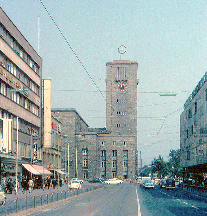 The classic view of Königstrasse and the Stuttgart station, with the Mercedes-Benz star on the tower.